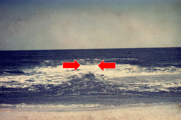 Rip currents in the ocean are often hard to identify by one's own eyes, take caution whenever swiming in a abody of water